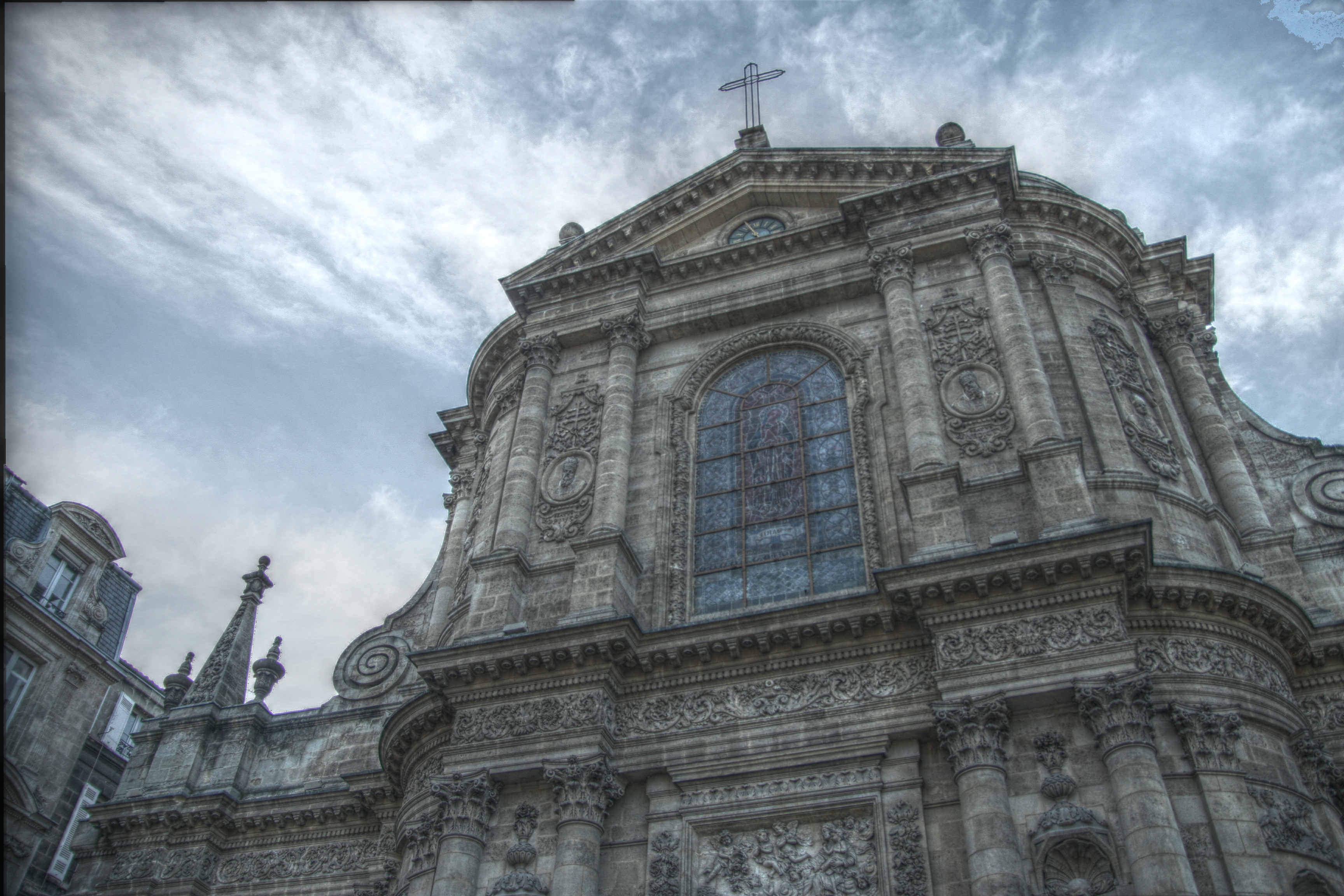 Notre Dame church in Bordeaux, France (high dynamic range picture made from 3 shots with different bracketing).